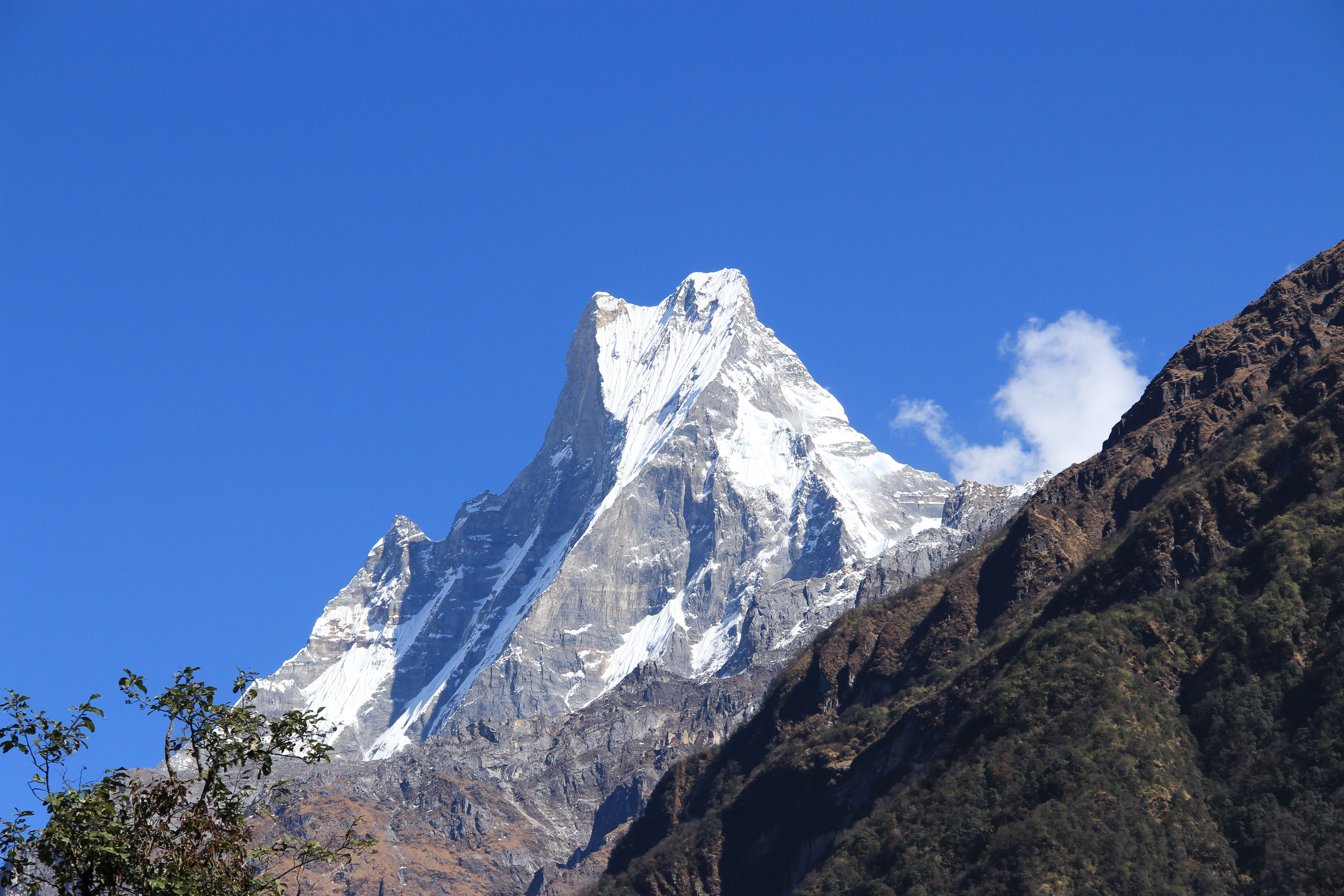 Mount Machhapuchchhre